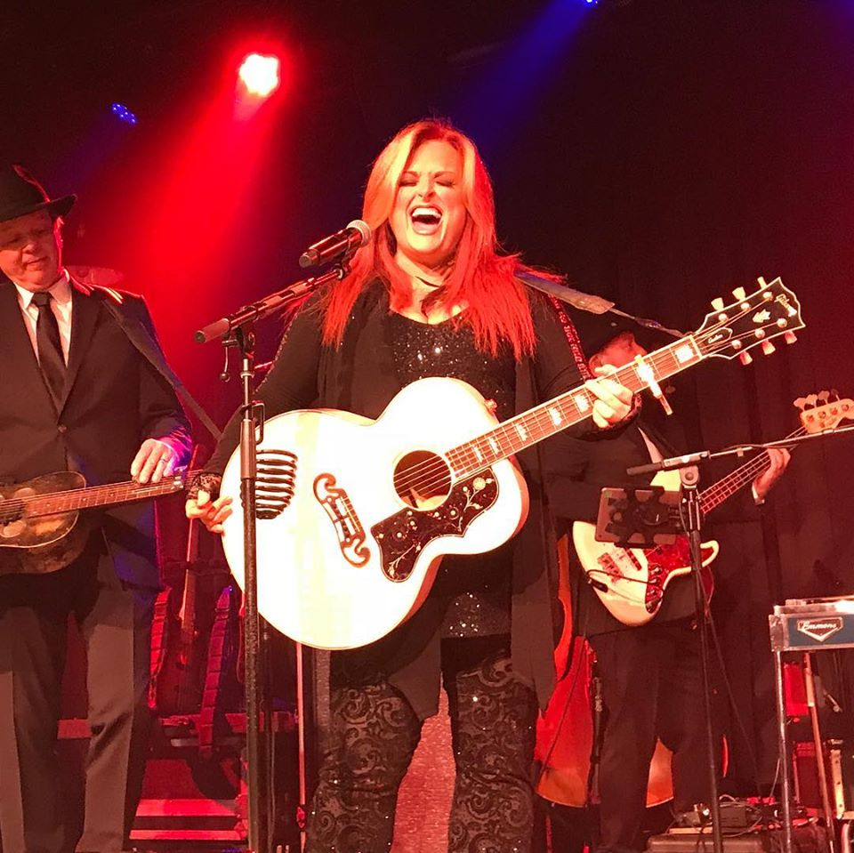 Wynonna Judd performs live in 2018 in Arlington, Virginia